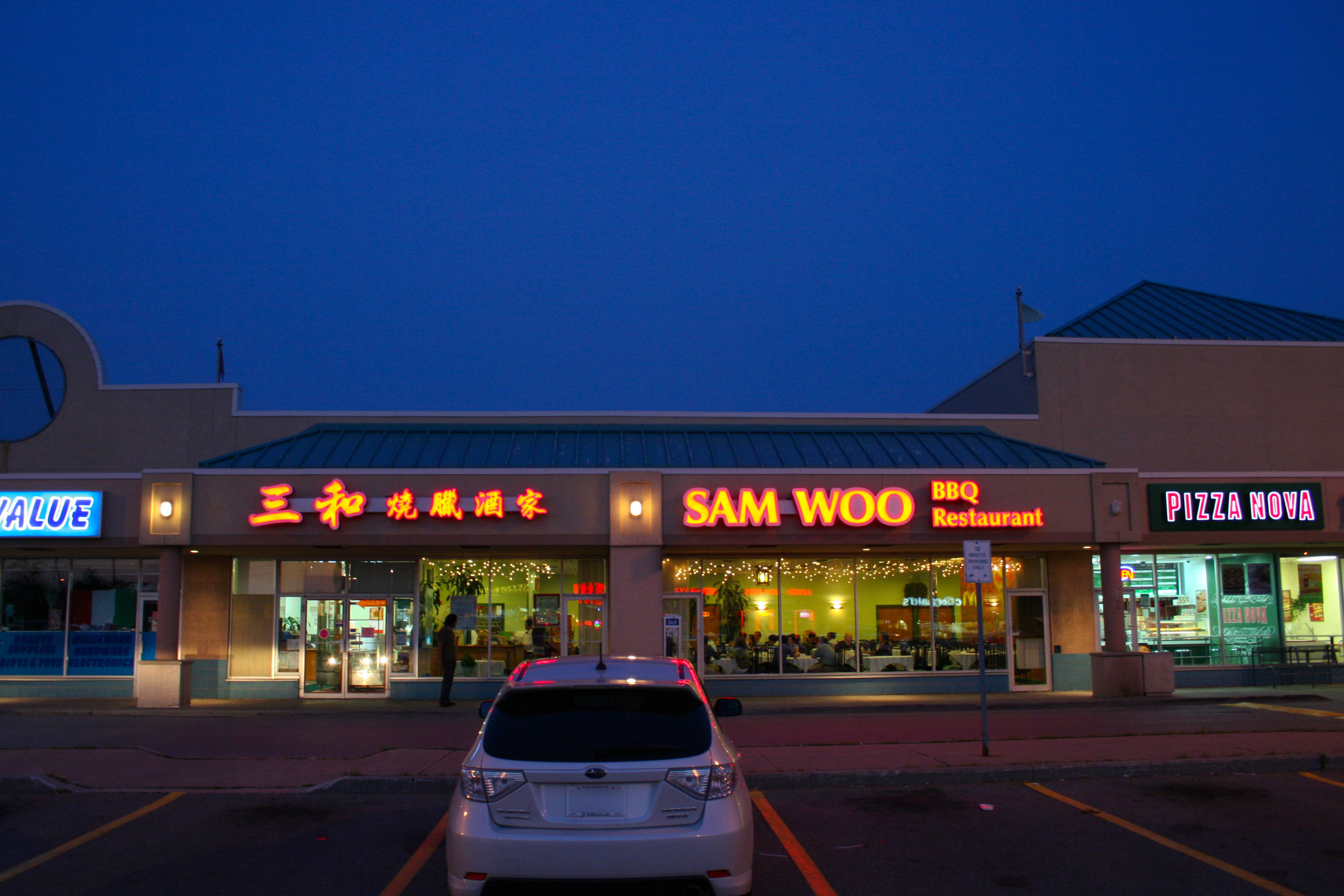 Sam Woo Restaurant and Pizza Nova in Mississauga, Ontario, Canada